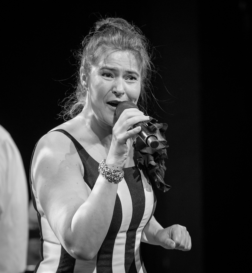 Majken Christiansen and Marinemusikkens Storband at the stage at Chat Noir. The concert was part of Oslo Jazzfestival and took place on 18. August 2017. Lineup: Majken Christiansen (vocal), unidentified (conductor) and Marinemusikkens Storband.